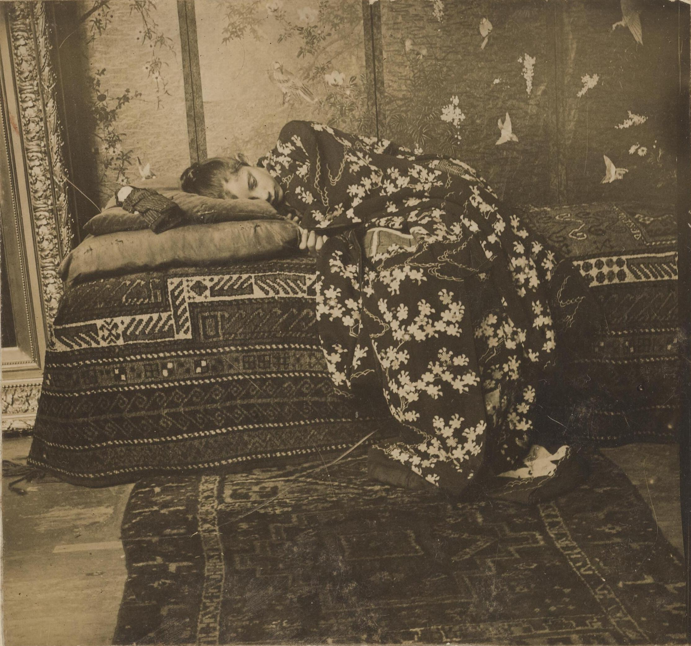 George Hendrik Breitner, Girl in a kimono (Geesje Kwak) in Breitner's studio on Lauriersgracht, Amsterdam, n.d. Gelatin silver print, framed: 12 1/4 x 15 1/4 in. Collection RKD (Netherlands Institute for Art History) The Hague inv.nr. BR 2040